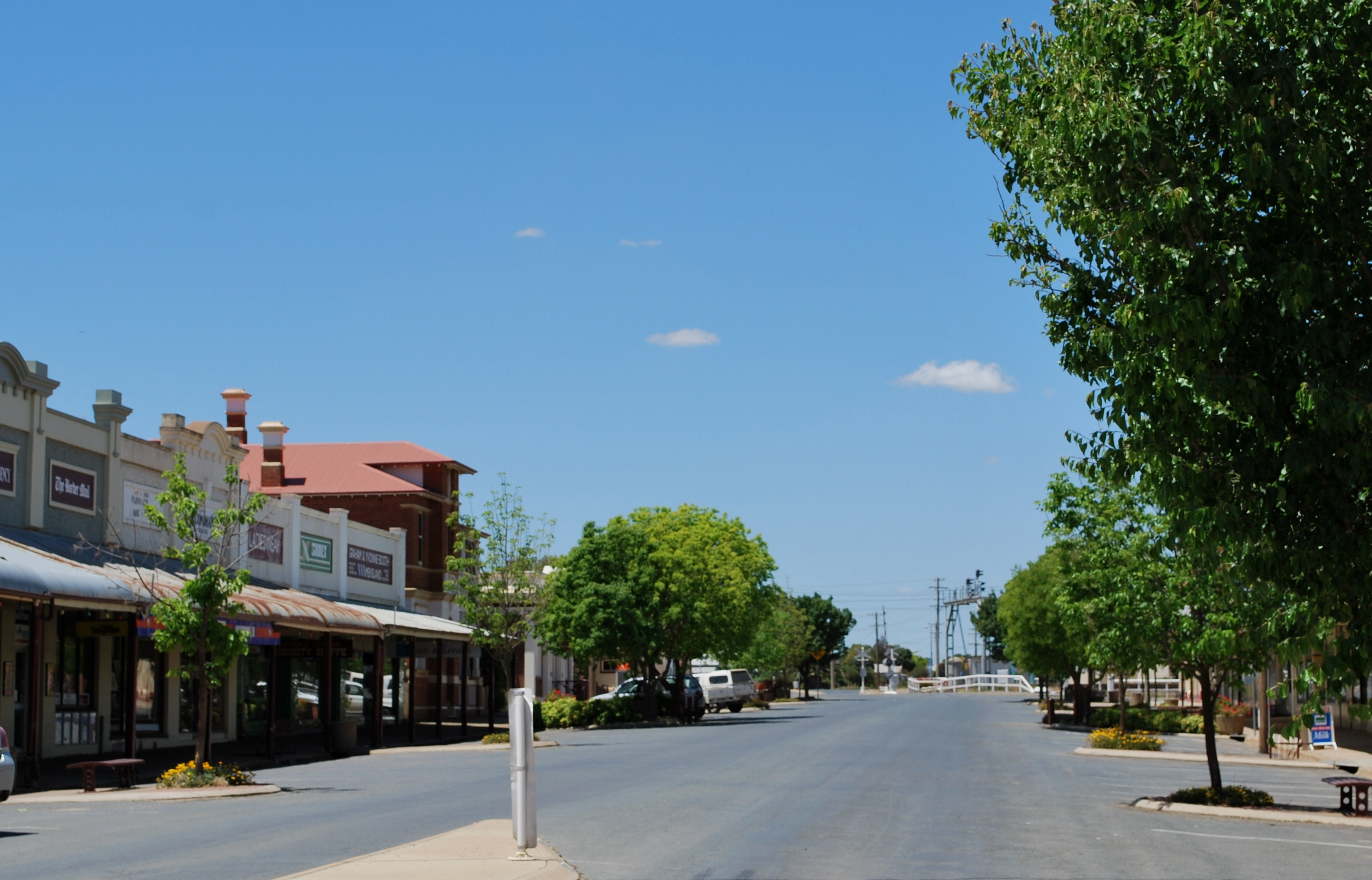 Main street of Henty, New South Wales